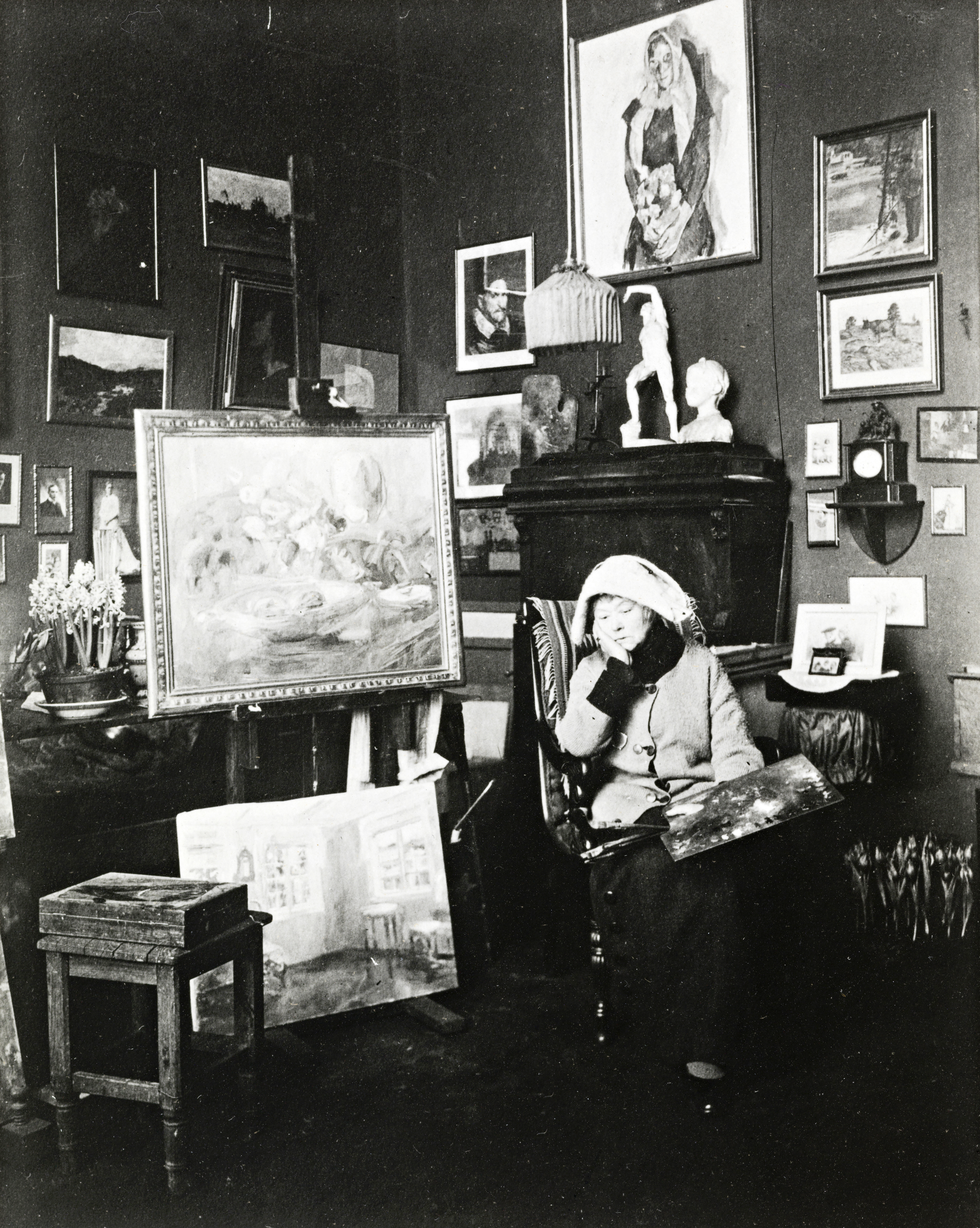 Beskrivelse / Description: Backer var maler. Dato / Date: ca 1920 Sted / Place: ukjent / unknown Fotograf / Photographer: ukjent / unknown Digital kopi av original / Digital copy of original: s/h papirpositiv Eier / Owner Institution: Nasjonalbiblioteket / National Library of Norway Lenke / Link: Bildesignatur / Image Number: blds_06014